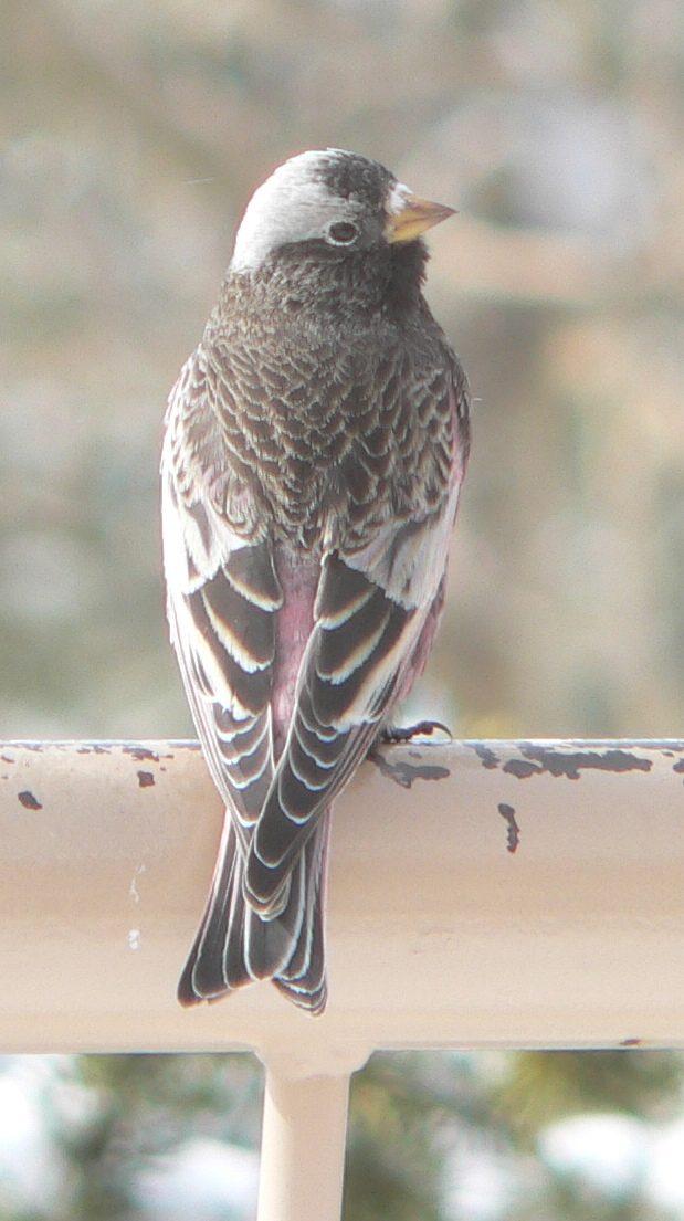 Black Rosy-Finch photographed at Crest House on Sandia Crest near Albuquerque, New Mexico.